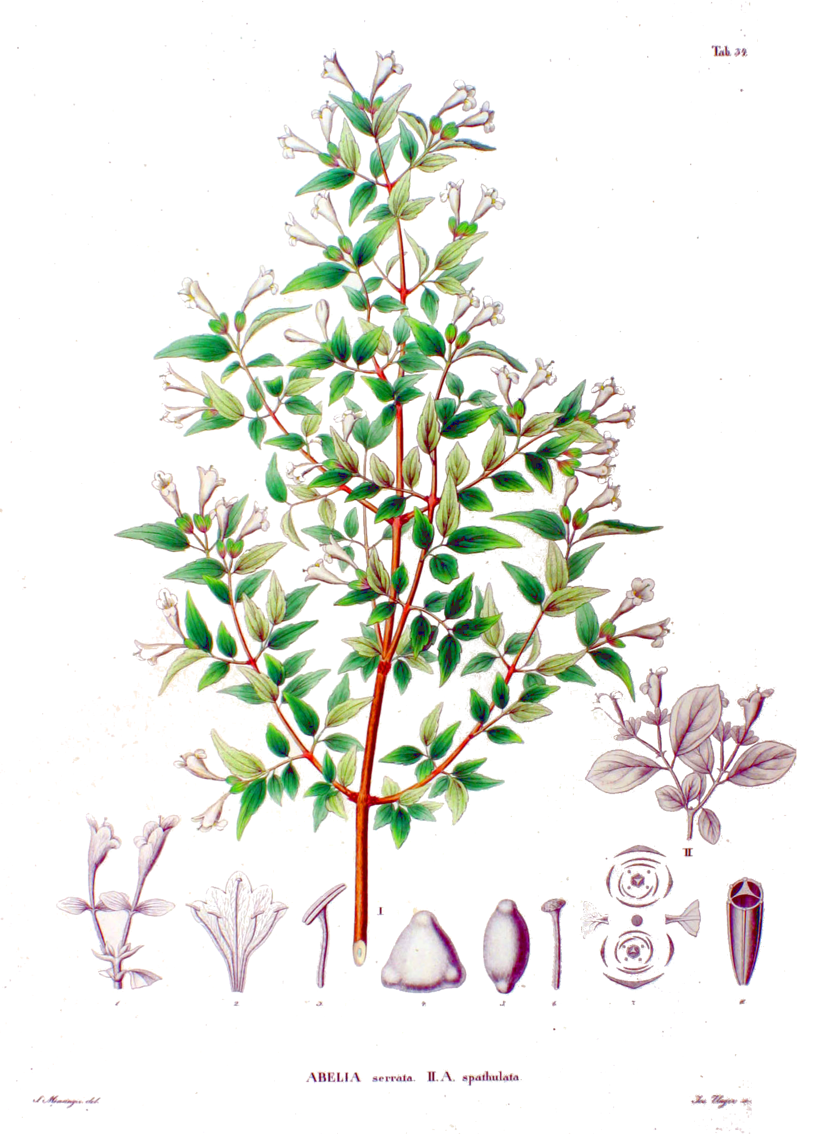 Plate from book